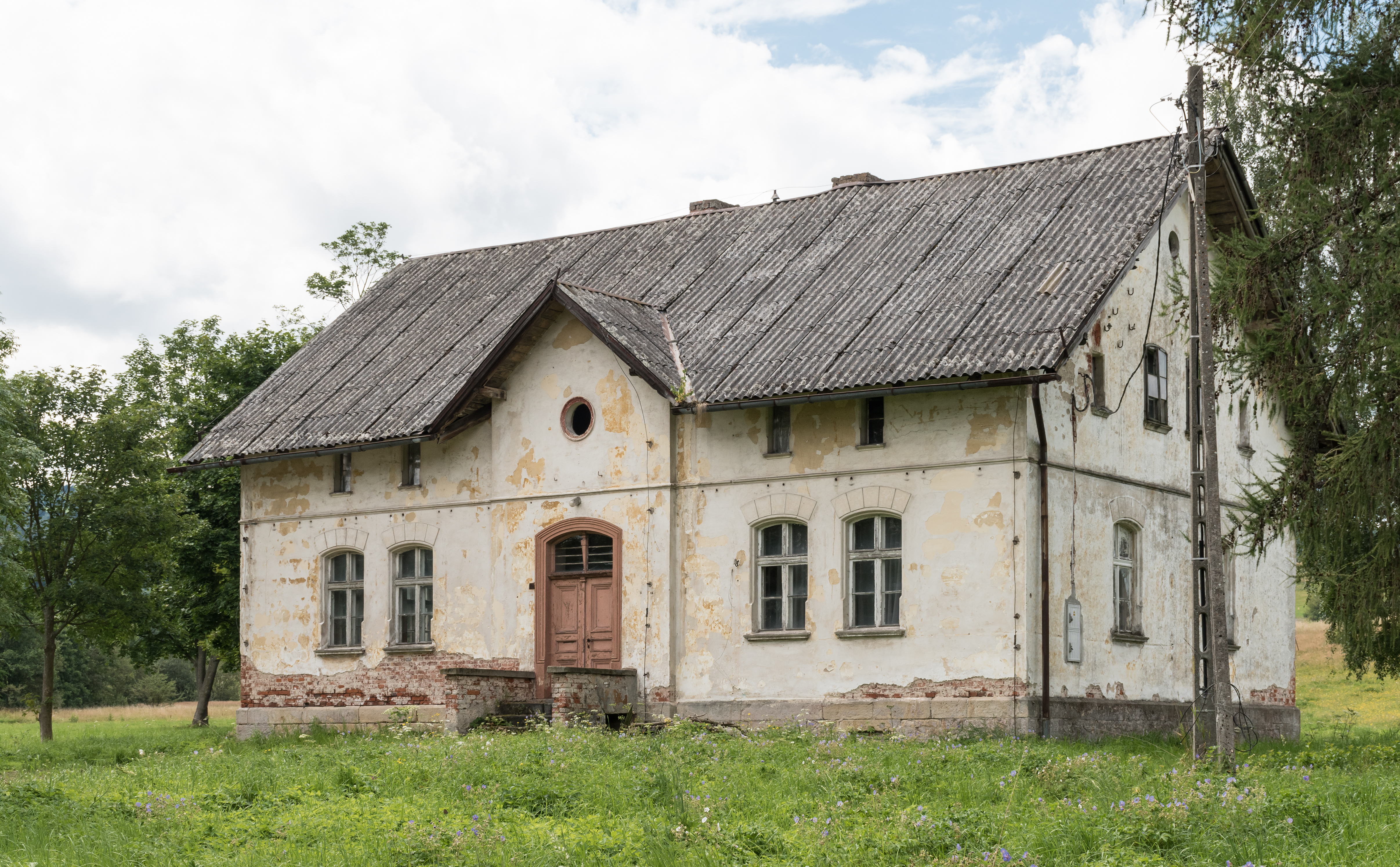 House No. 10 in Smreczyna